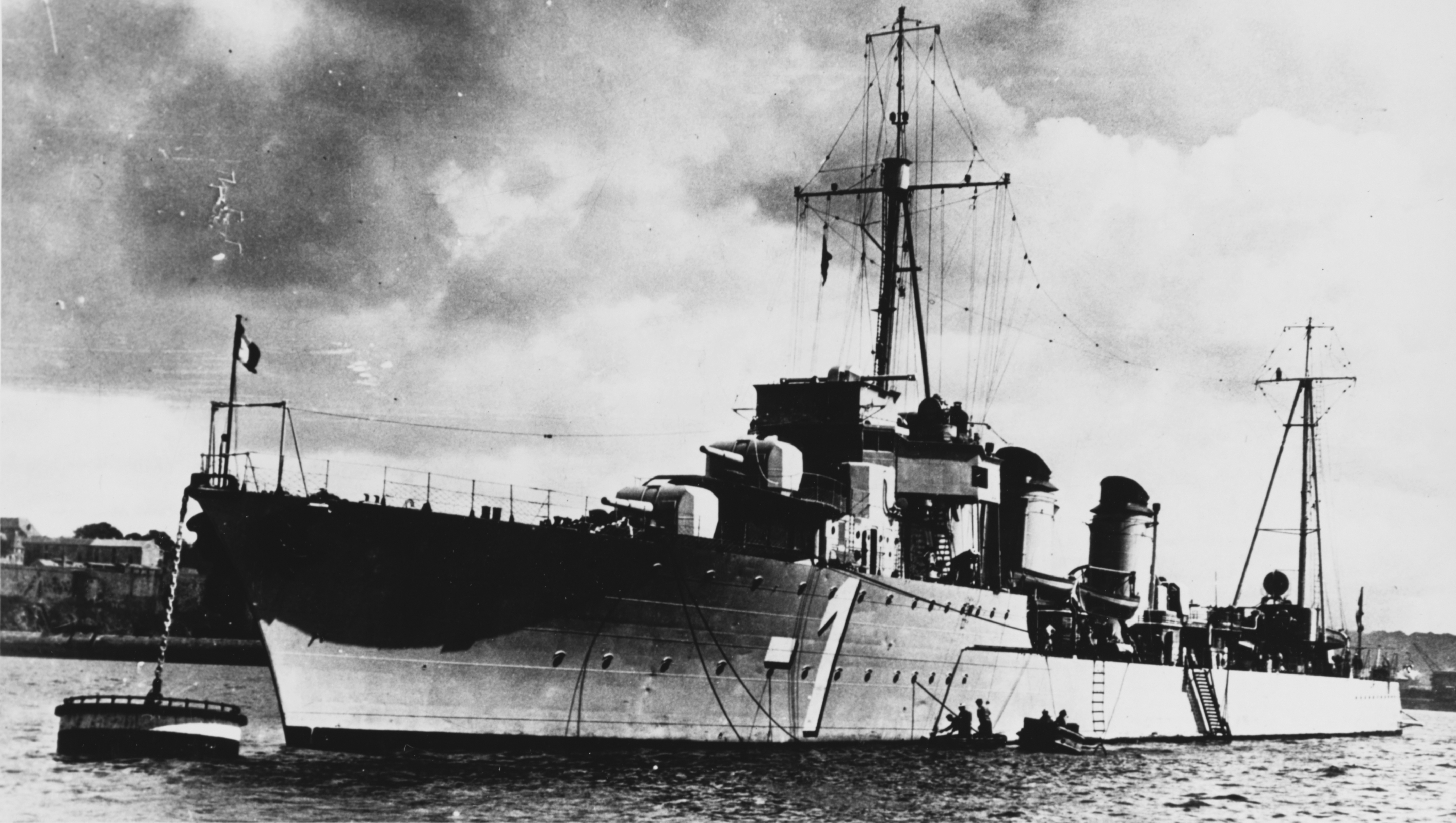 A French Chacal-class destroyer moored to a buoy, probably off Brest Arsenal, France. The original print is dated 31 July 1937. Note the sailors working from small craft amidships, apparently painting the ship's hull.